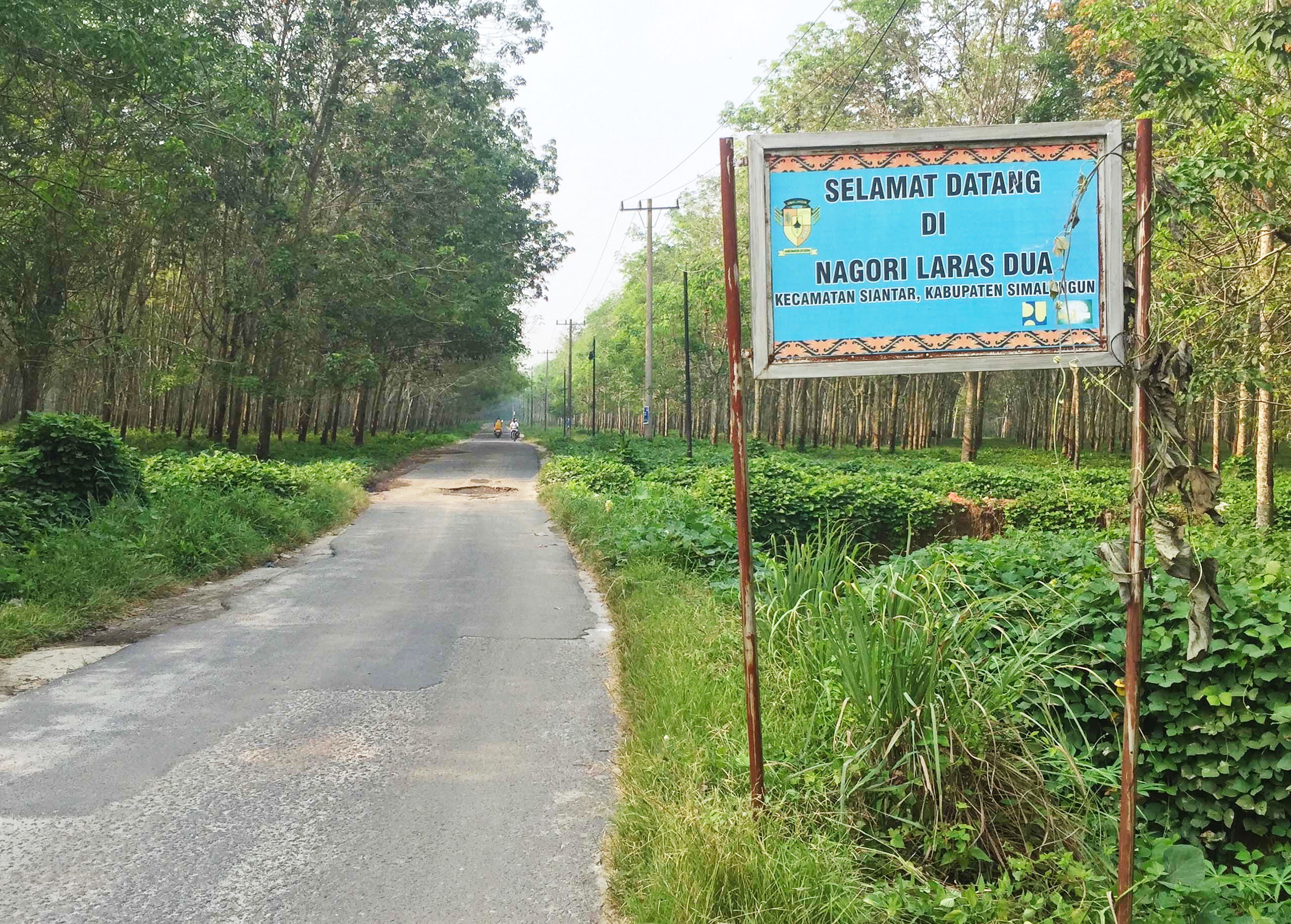 welcome gate to Laras II, Siantar, Simalungun